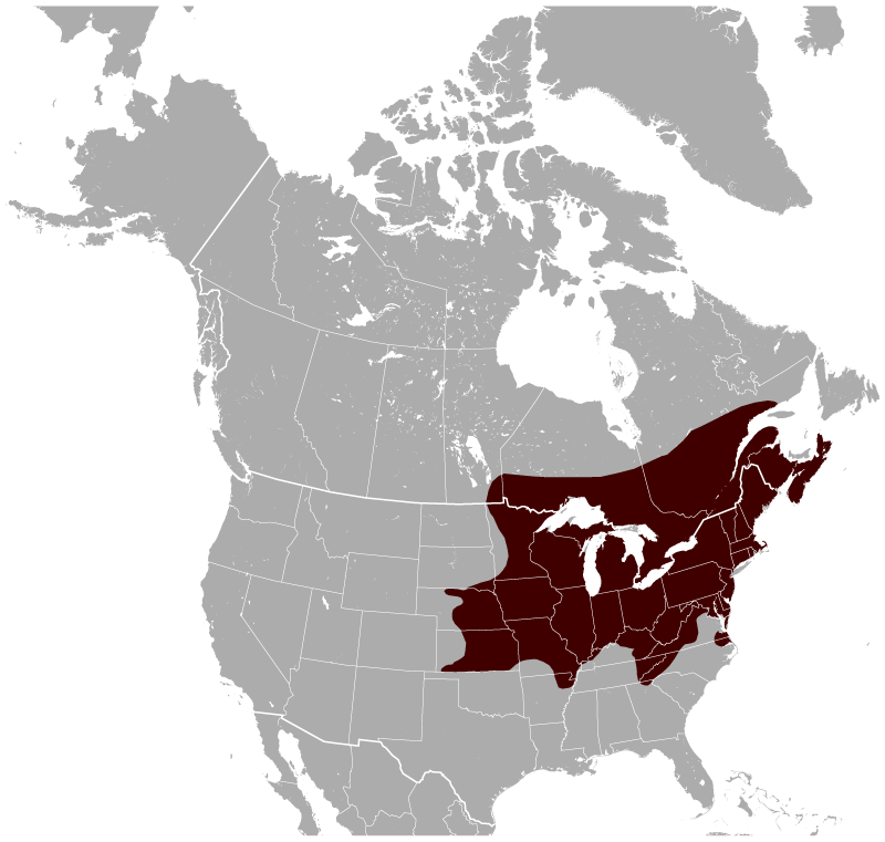 Geographical distribution of the Southern Bog Lemming Synaptomys cooperi. The map was created using the Generic Mapping Tools, GMT, version 5.1.1.